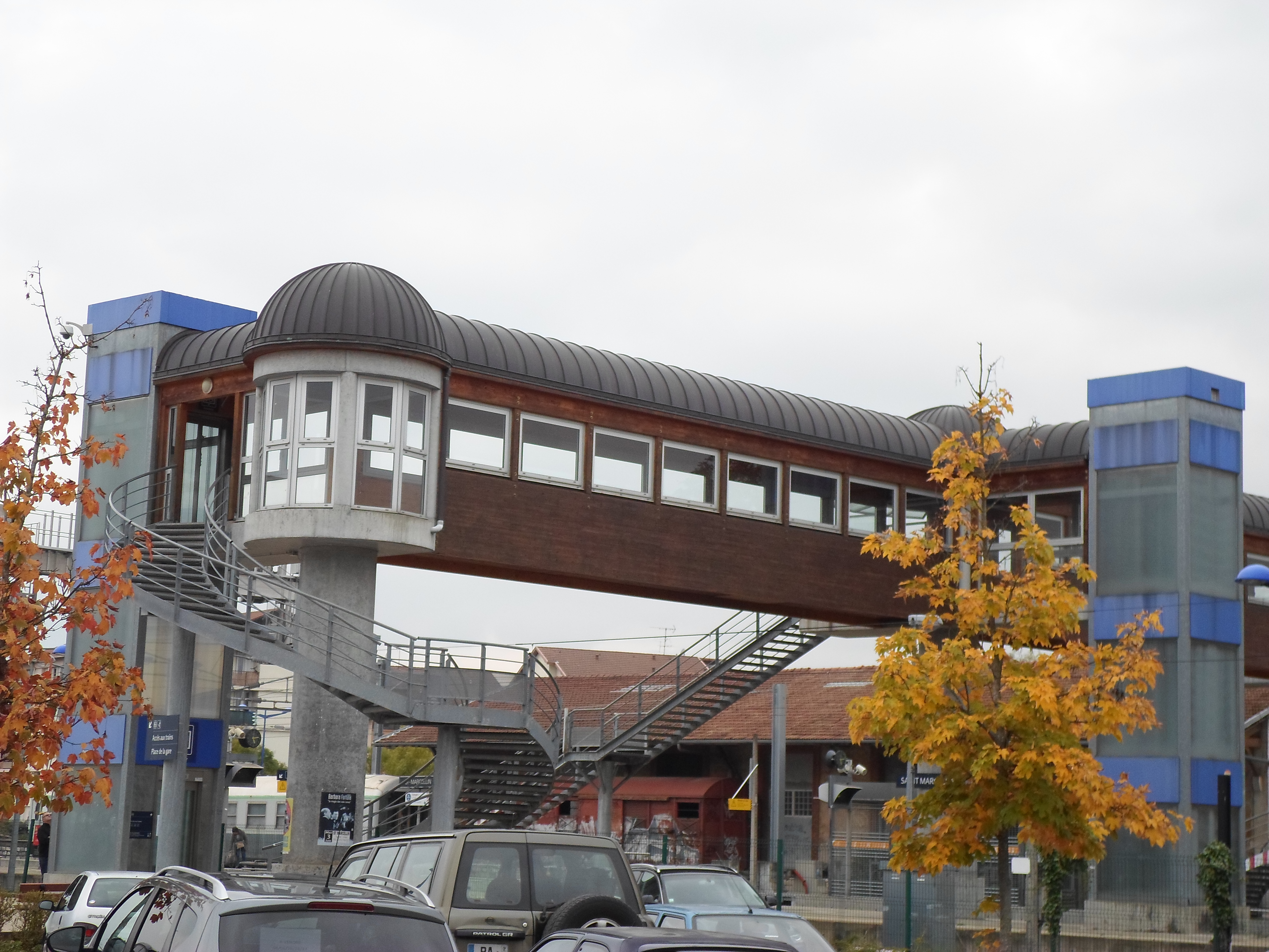 Gare de St Marcellin F38160 VAN_DEN_HENDE_ALAIN CC-BY-SA-40 P0658